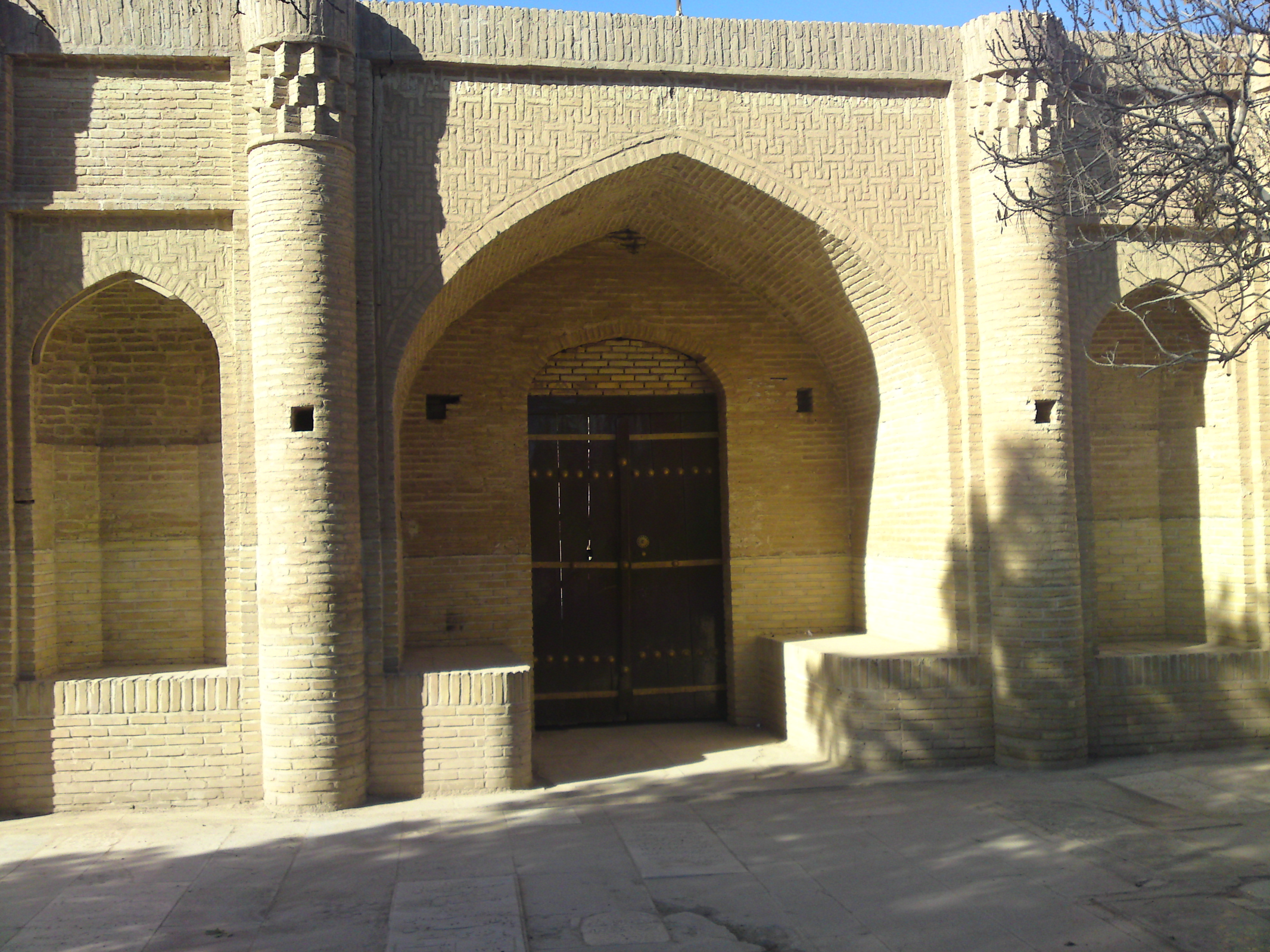 the door hayat emamzadeh-seyed eshagh-saveh